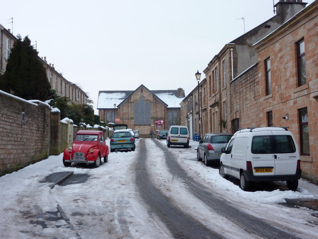 Christ Church Street, Accrington